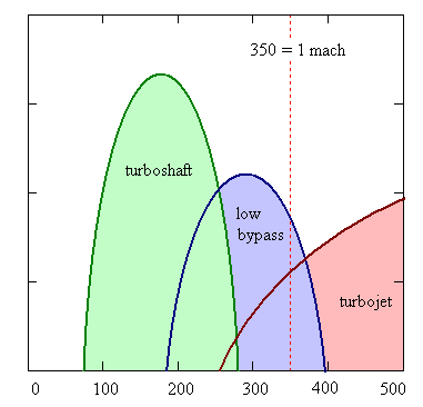 Relative suitability of the turboshaft (left), low bypass turbofans (middle) and ordinary turbojects (right) for the flight at the 10 km attitude in various speeds